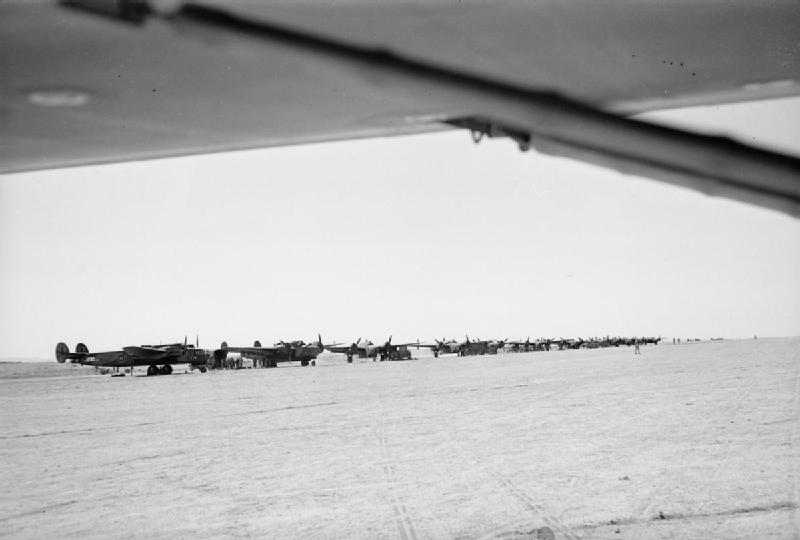 Royal Air Force Operations in the Middle East and North Africa, 1939-1943. Operation HUSKY: Armstrong Whitworth Albemarle Mark Is of No. 296 Squadron RAF, lined up at Goubrine II, Tunisia, while taking part in the airborne landings on Sicily. Photograph taken from under the wing of a Waco CG-4A glider.